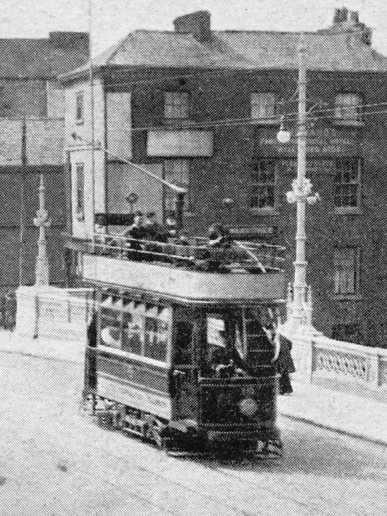 An electric tram crosses the old Exe Bridge in Exeter, Devon, England.